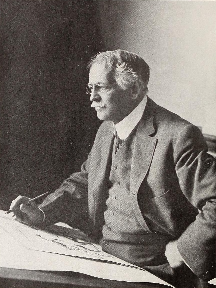 Photograph of William Allen Rogers (1854–1931)